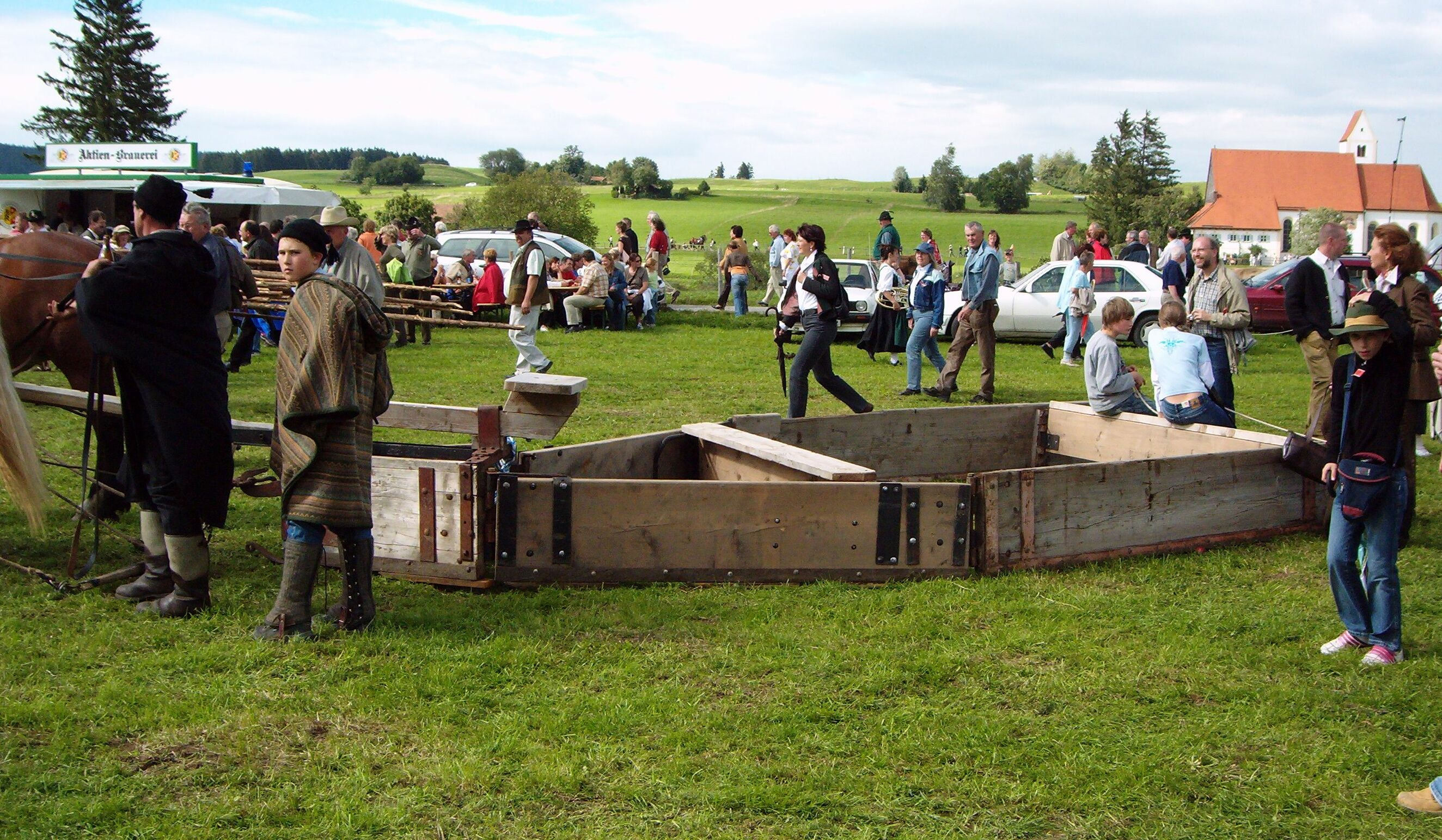 Historic horsedrawn snowplow, picture taken at "Rosstag Burggen", Bavaria